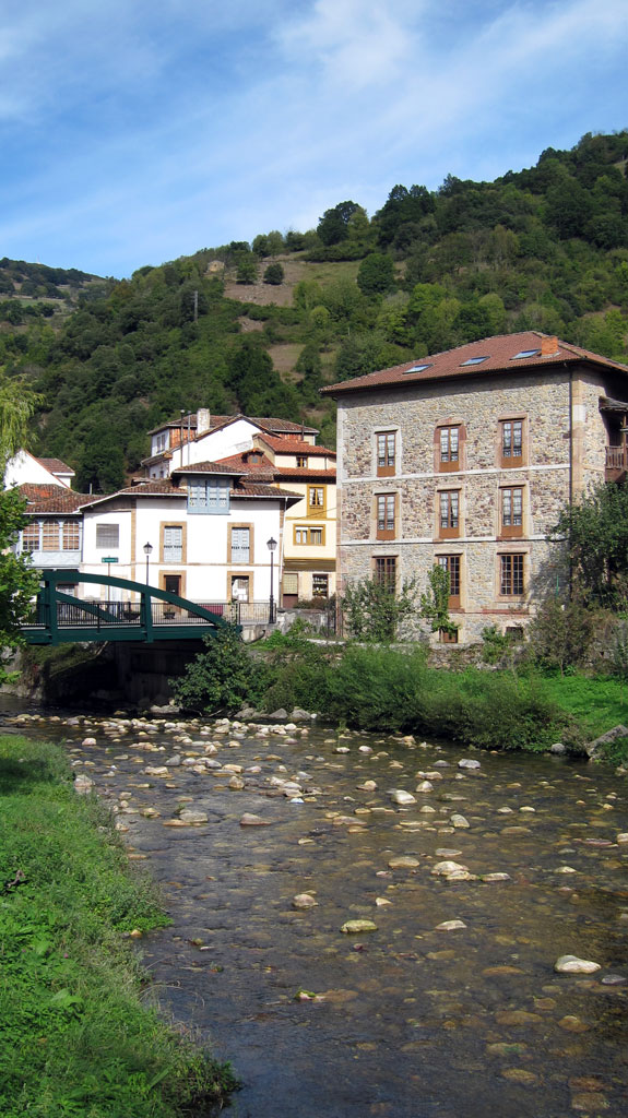 Pigüeña river in Belmonte de Miranda (Asturias)